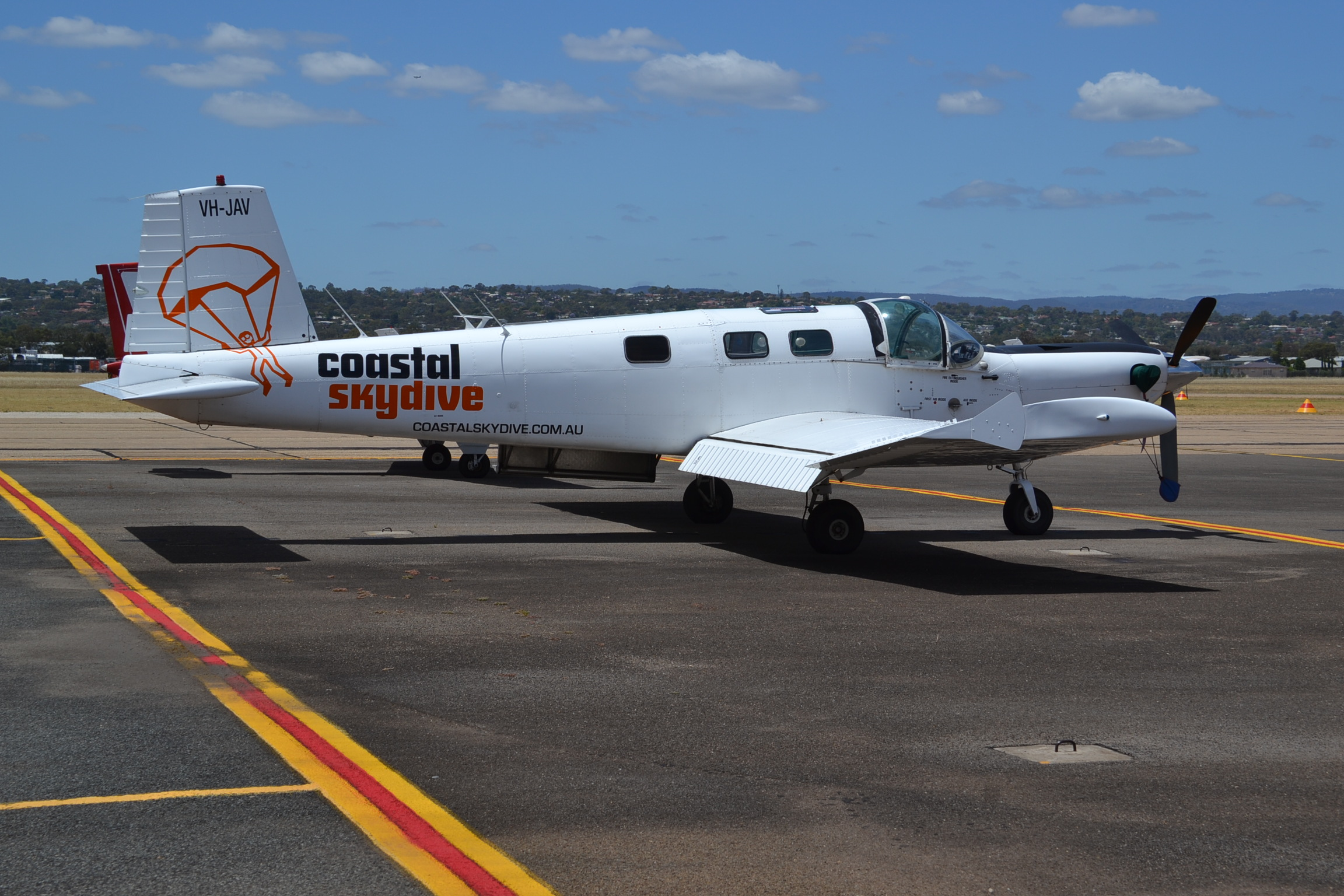 Fletcher FU-24 of Coastal Skydiving at Adelaide-Parafield, SA., Australia, 26/11/14.